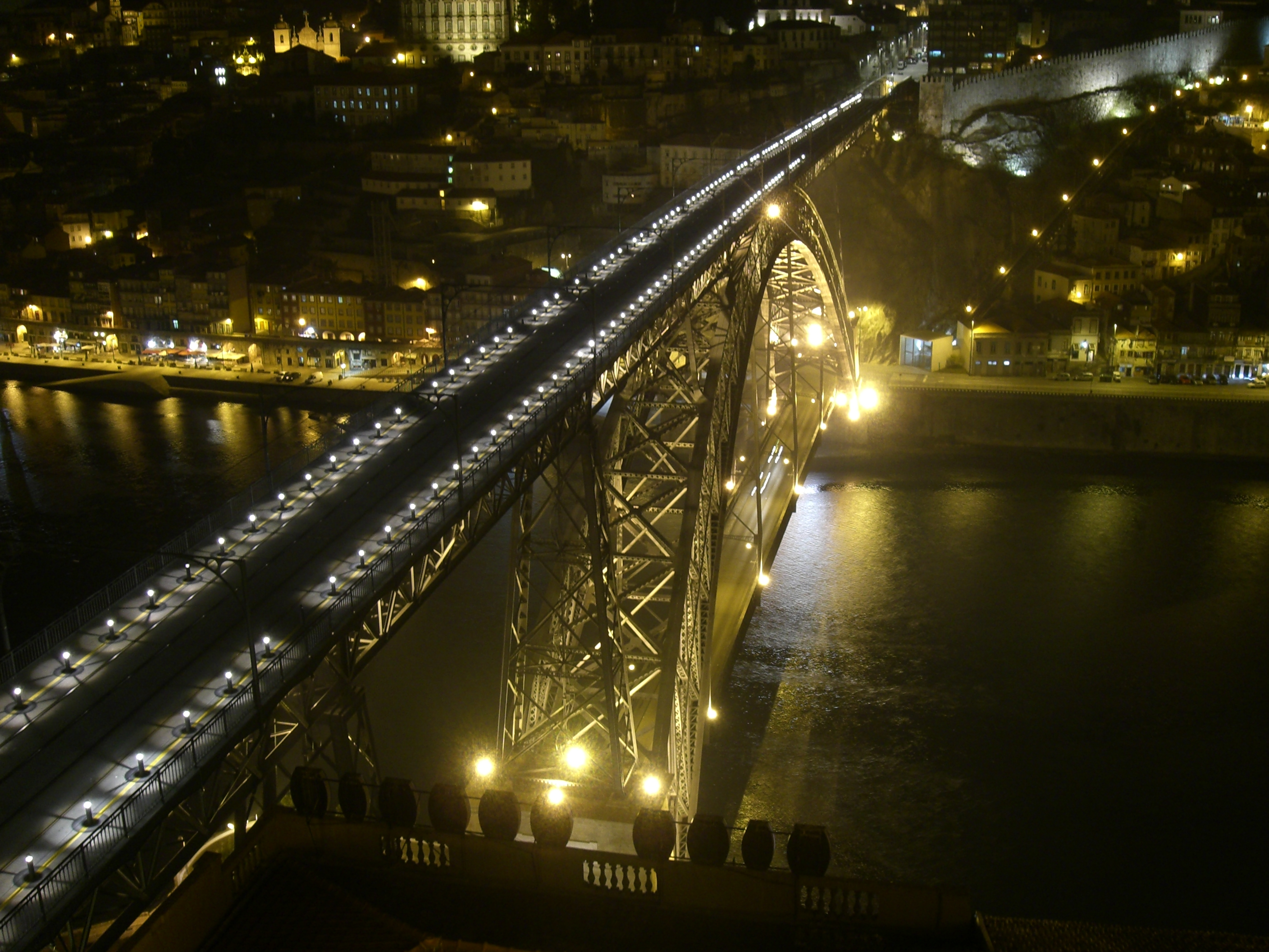 Dom Luis I bridge bridge in Porto, Portugal